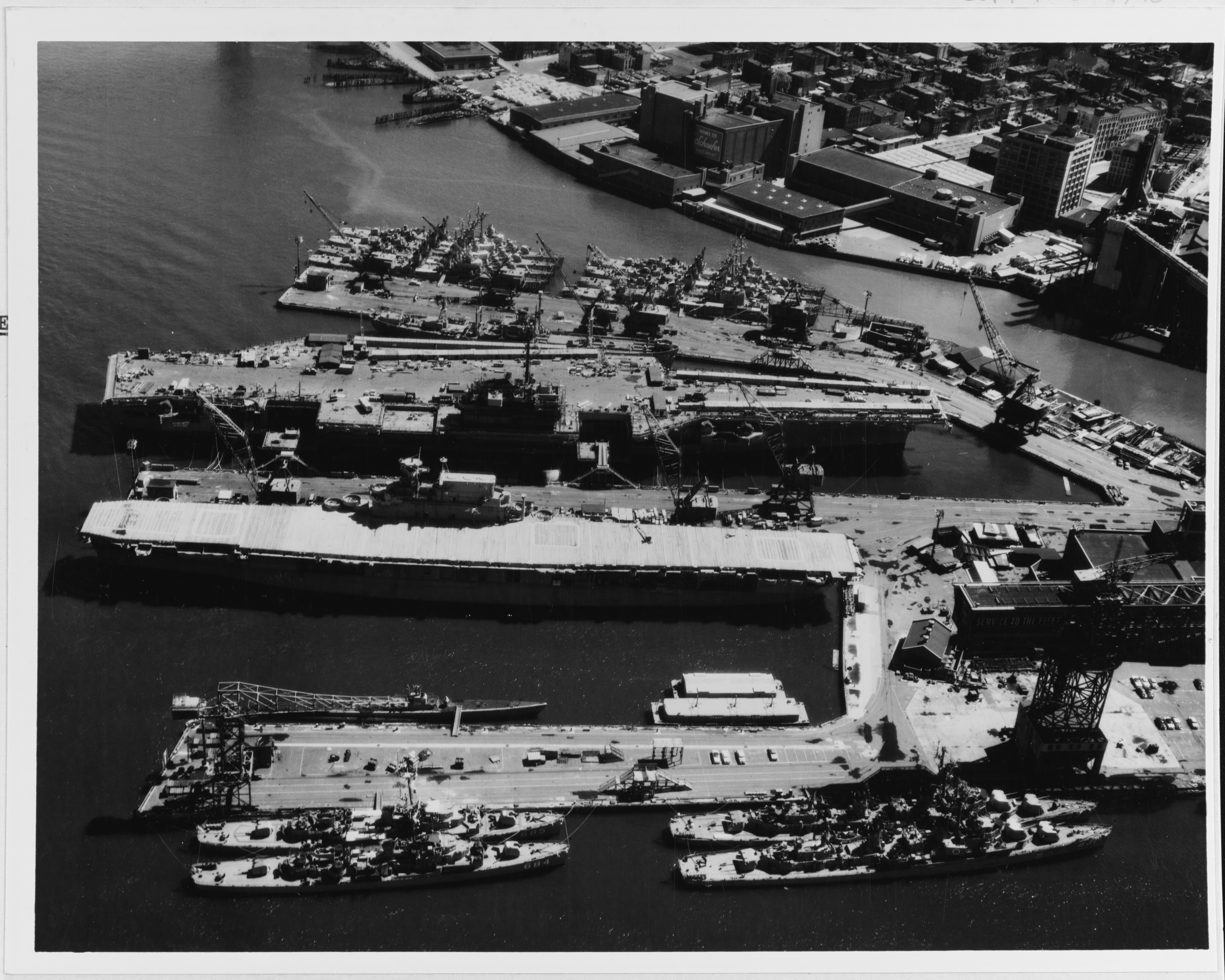 USS Enterprise (CVS-6) awaiting disposal at the New York Naval Shipyard on 22 June 1958. She was sold for scrapping ten days later, on 2 July. USS Independence (CVA-62) is fitting out on the opposite side of the pier. Ships visible in the left foreground include (from front): USS DeLong (DE-684), USS Coates (DE-685) and USS Hoe (SS-258). Ten other destroyers are also present, as is a "Liberty" type ship. The Schaefer brewery is visible in the center background.